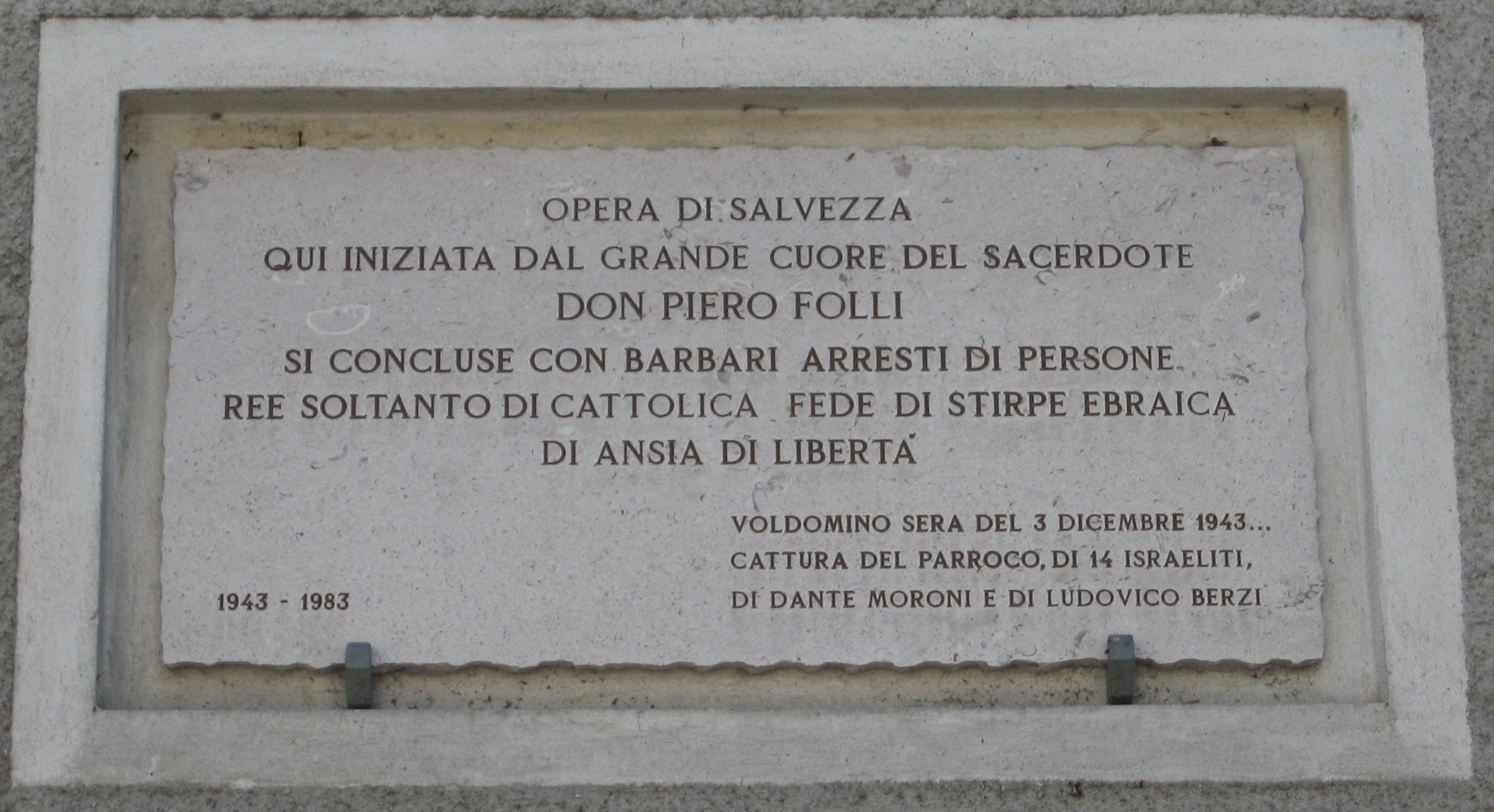 Plaque dedicated to don Piero Folli in Voldomino (Luino) Italy